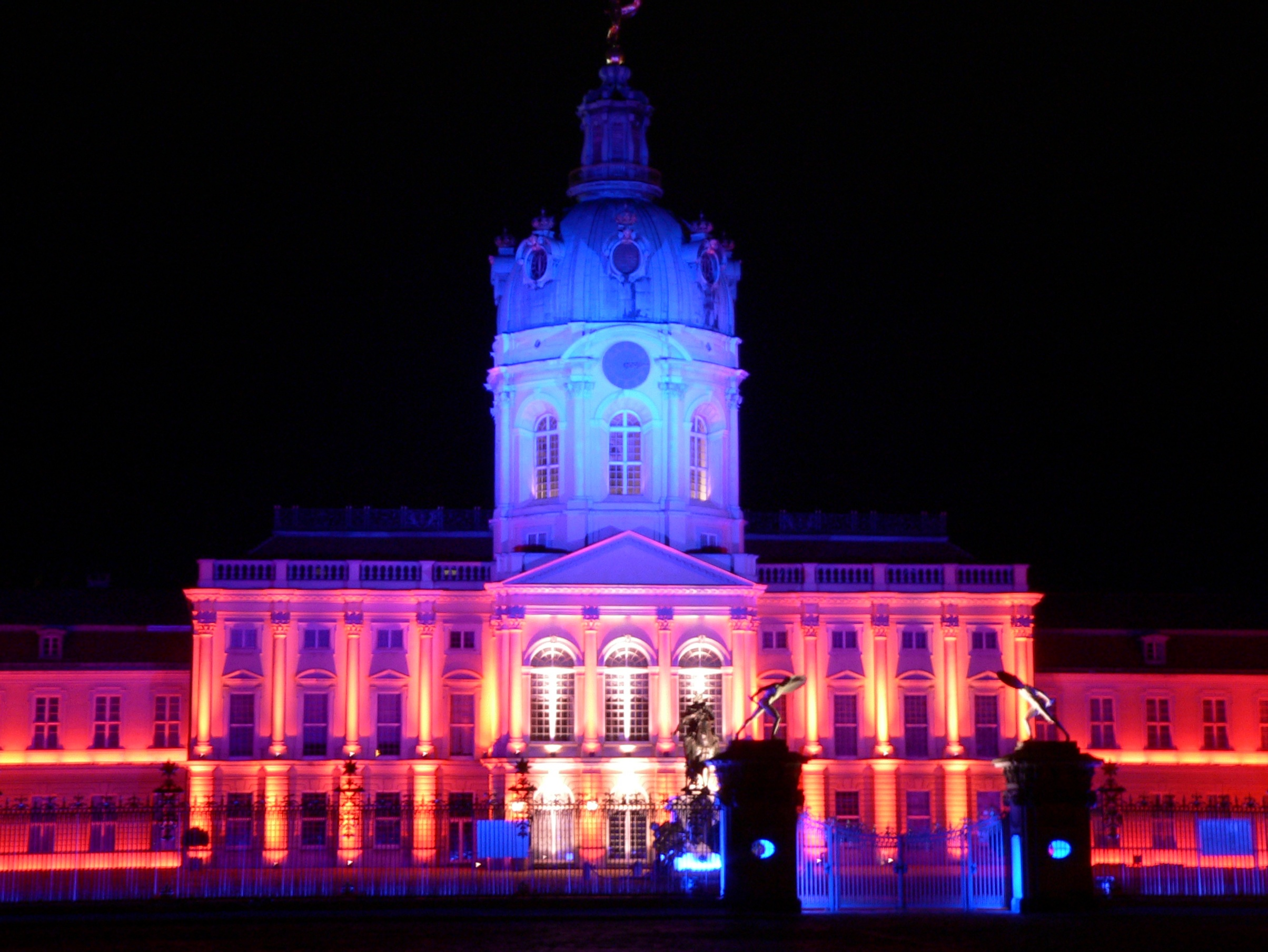 Description: Schloss-Charlottenburg (Charlottenburg palace) in Berlin. Opis: Pałac w berlińskiej dzielnicy Charlottenburg. Source: picture was taken by Marek K. Misztal on the 1st July 2005.